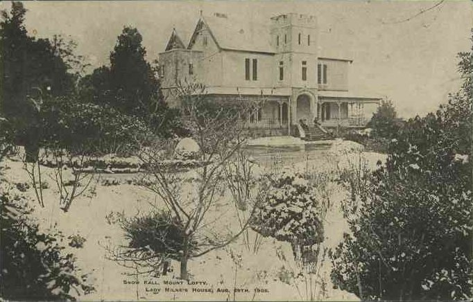 "Eurilla" at Mount Lofty after snowfall